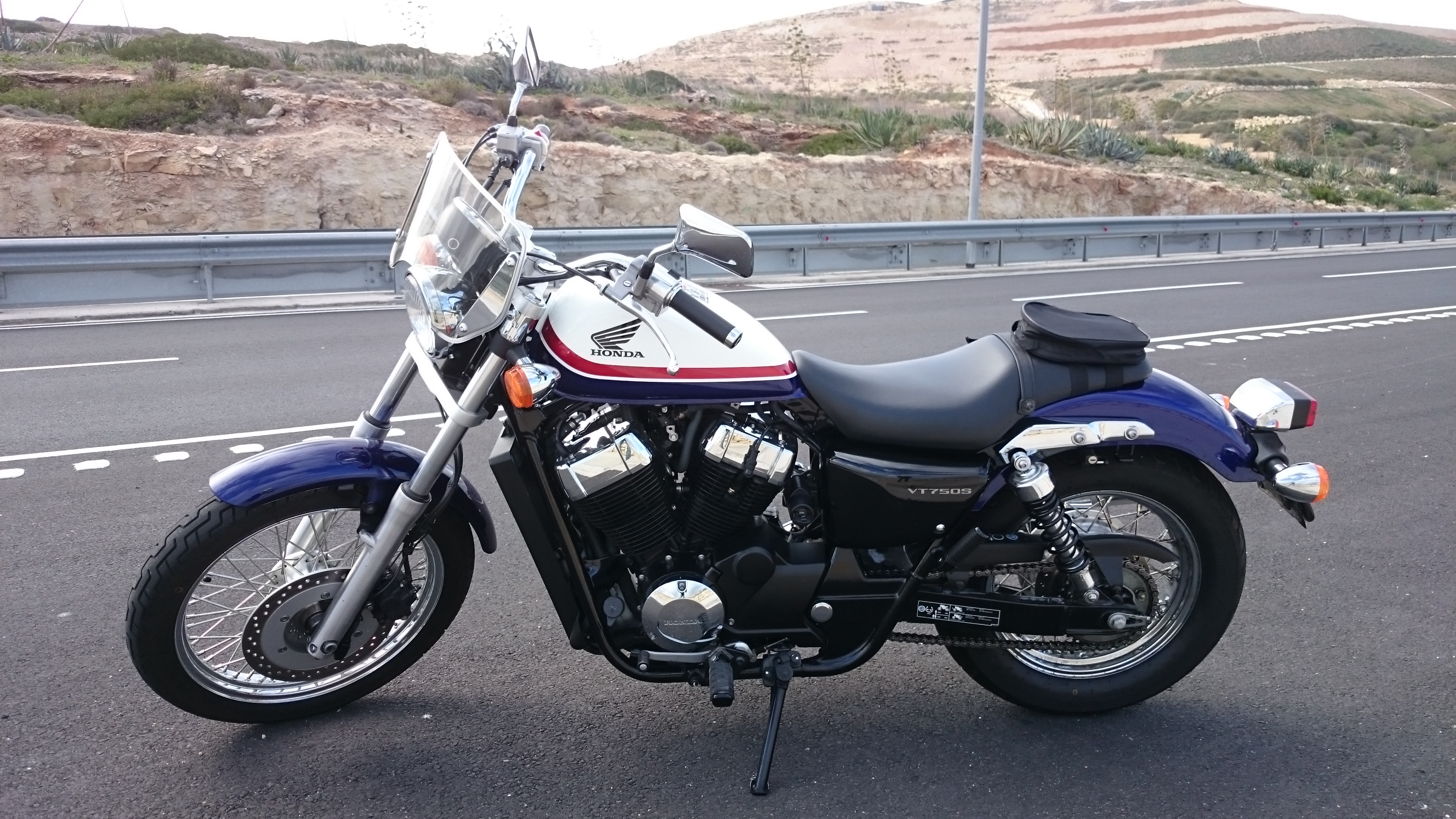 2012 Honda VT750S Tricolour (Colour: Pearl Heron Blue / Shasta White)